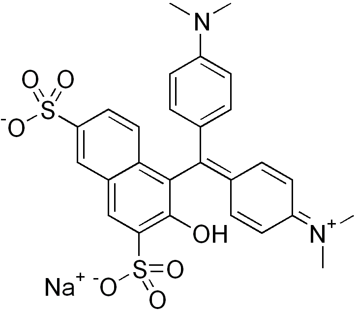 chemical structure of Green S